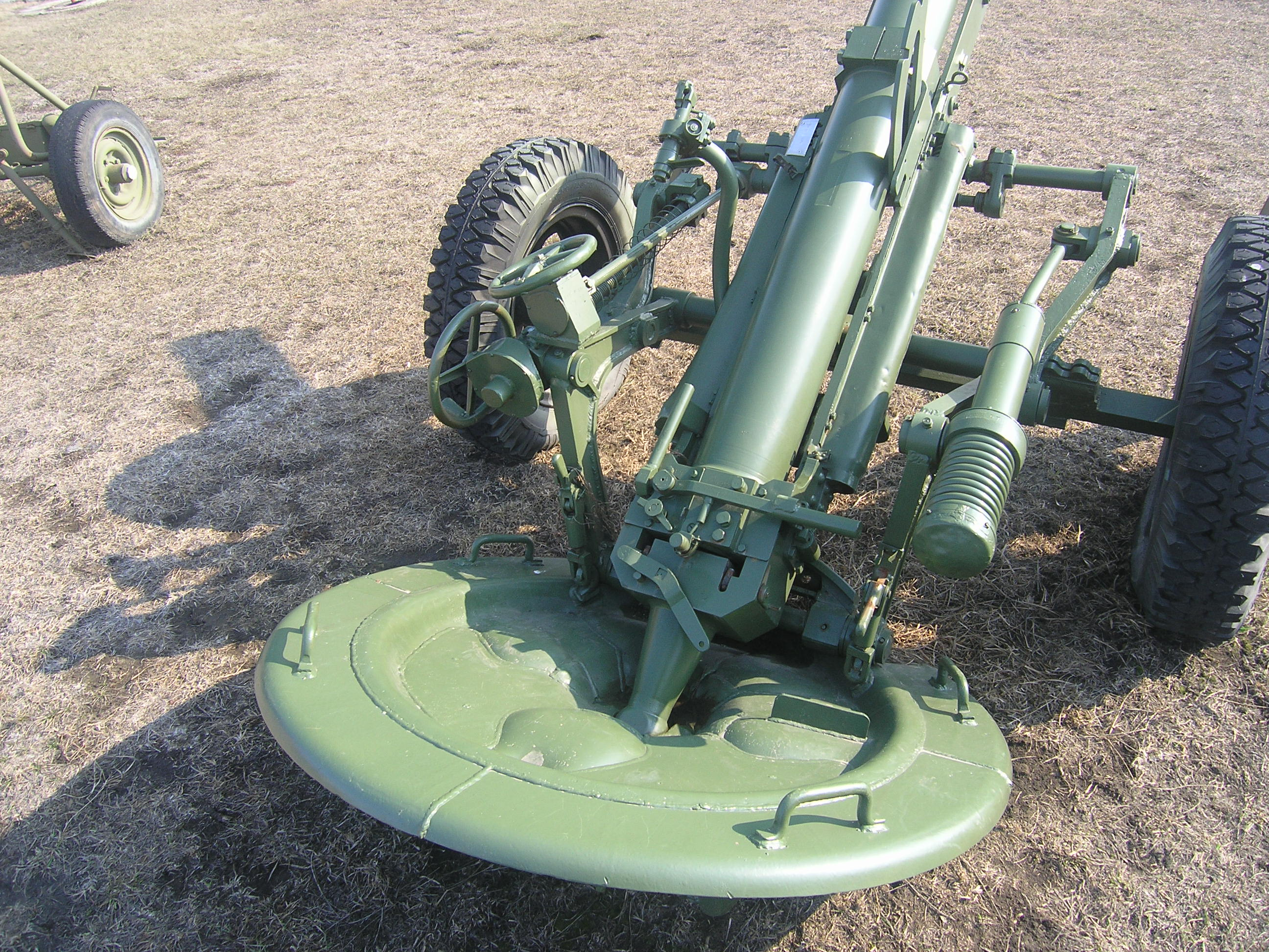 160 mm mortar M1943 in Technical museum Togliatti